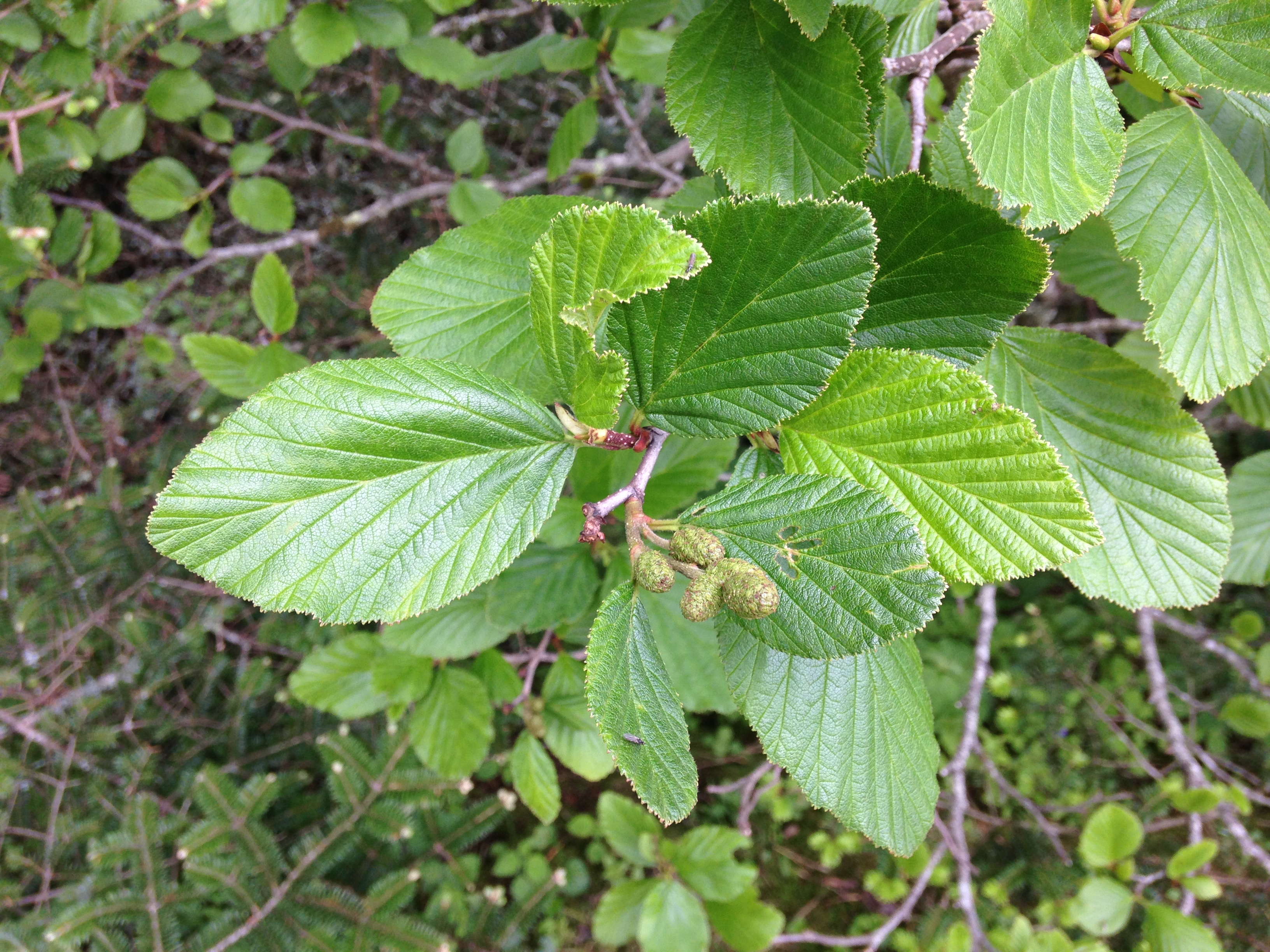 Alnus viridis ssp. crispa, spruce-fir forest, at edge of parking lot for Roan High Knob trial. Roan Mountain, Mitchell County, North Carolina.